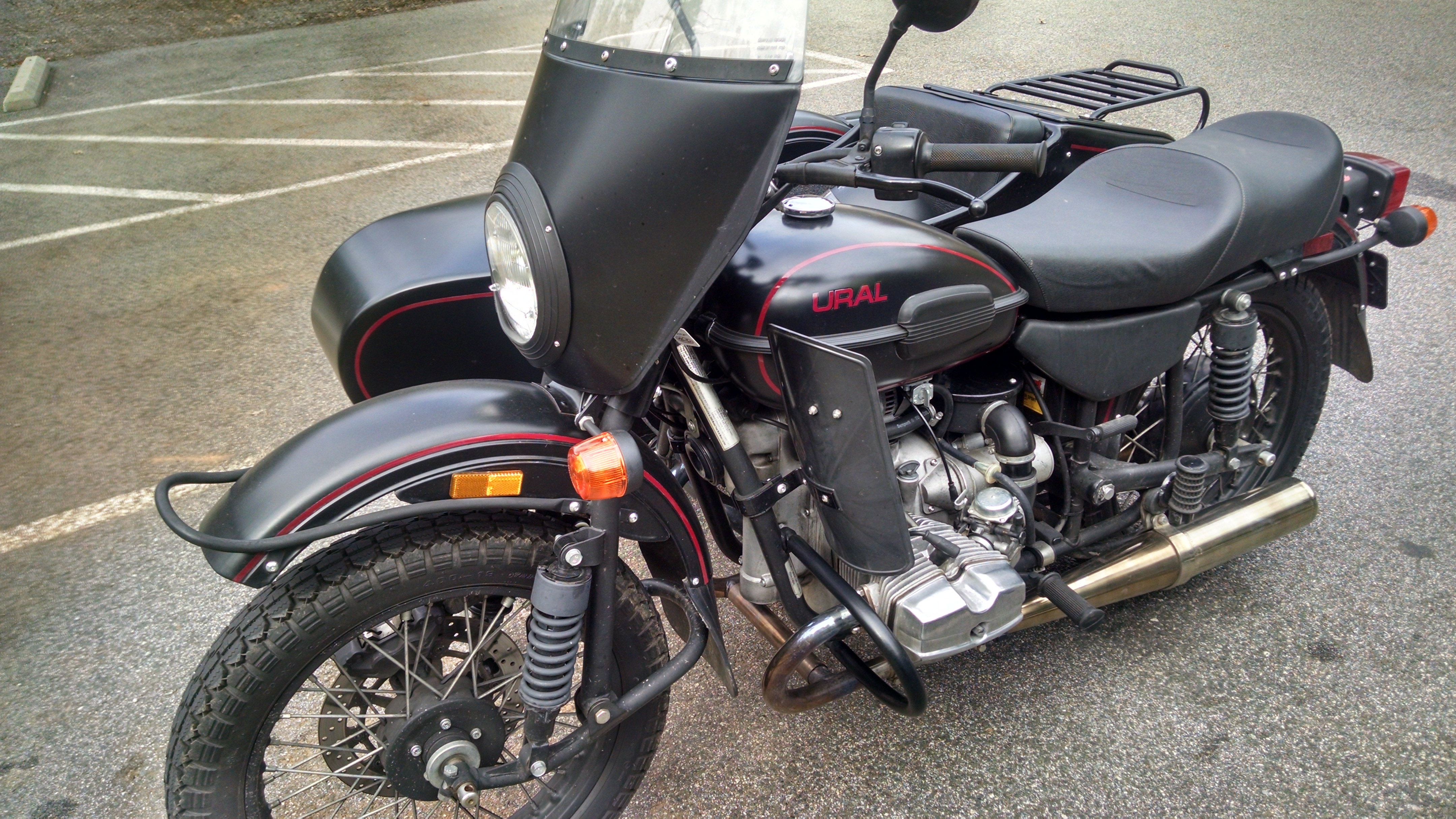 2009 ural motorcycle